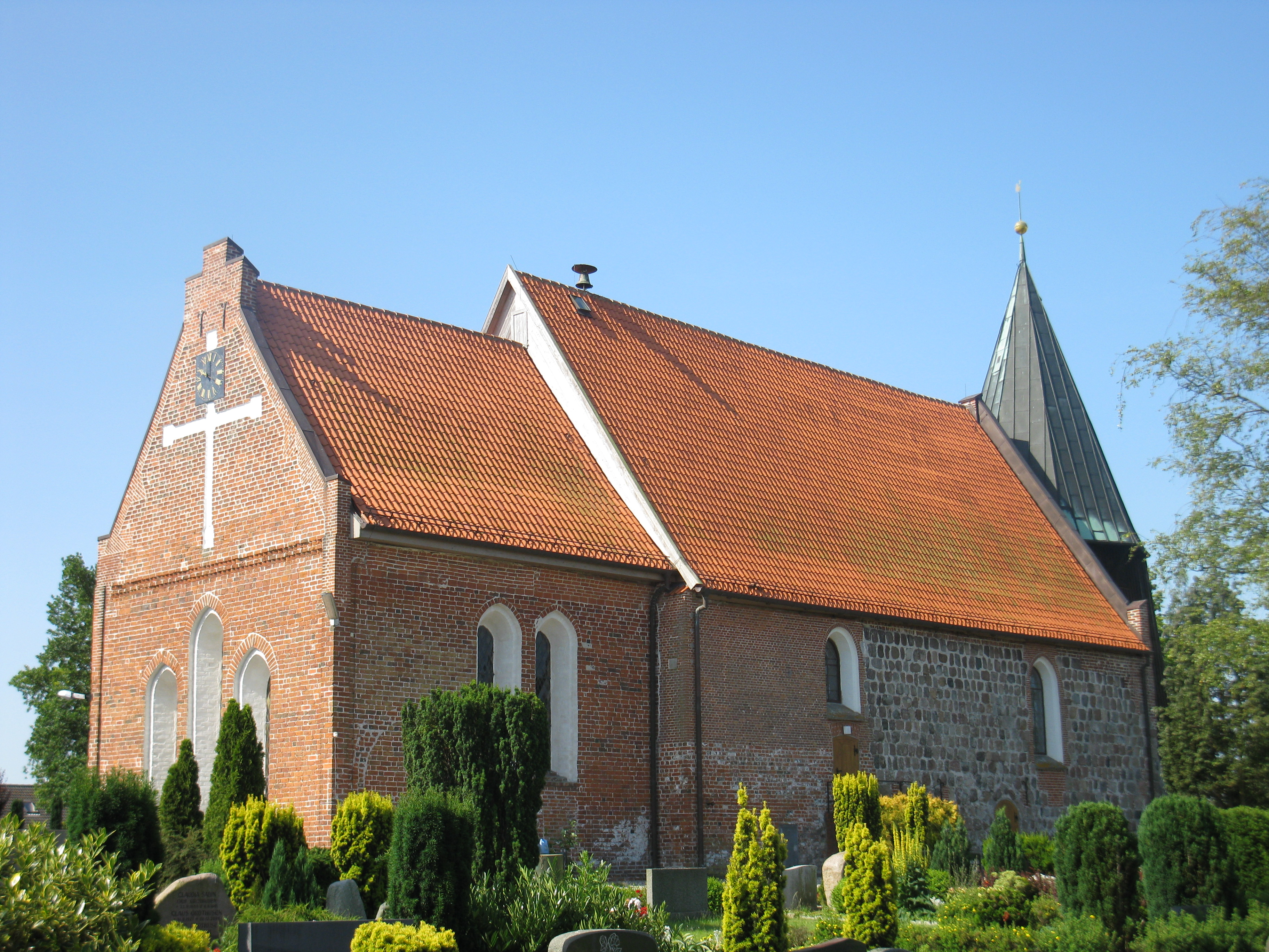 Saint Johannis Church, Bannesdorf, Fehmarn, Germany